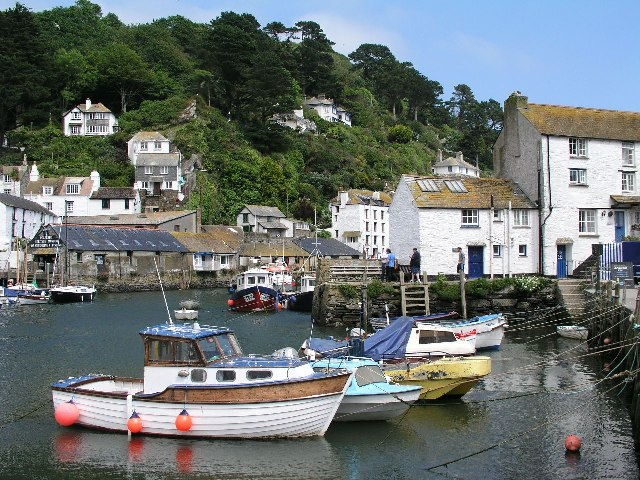 Polperro Inner Harbour. Polperro is a quaint old Cornish fishing village.